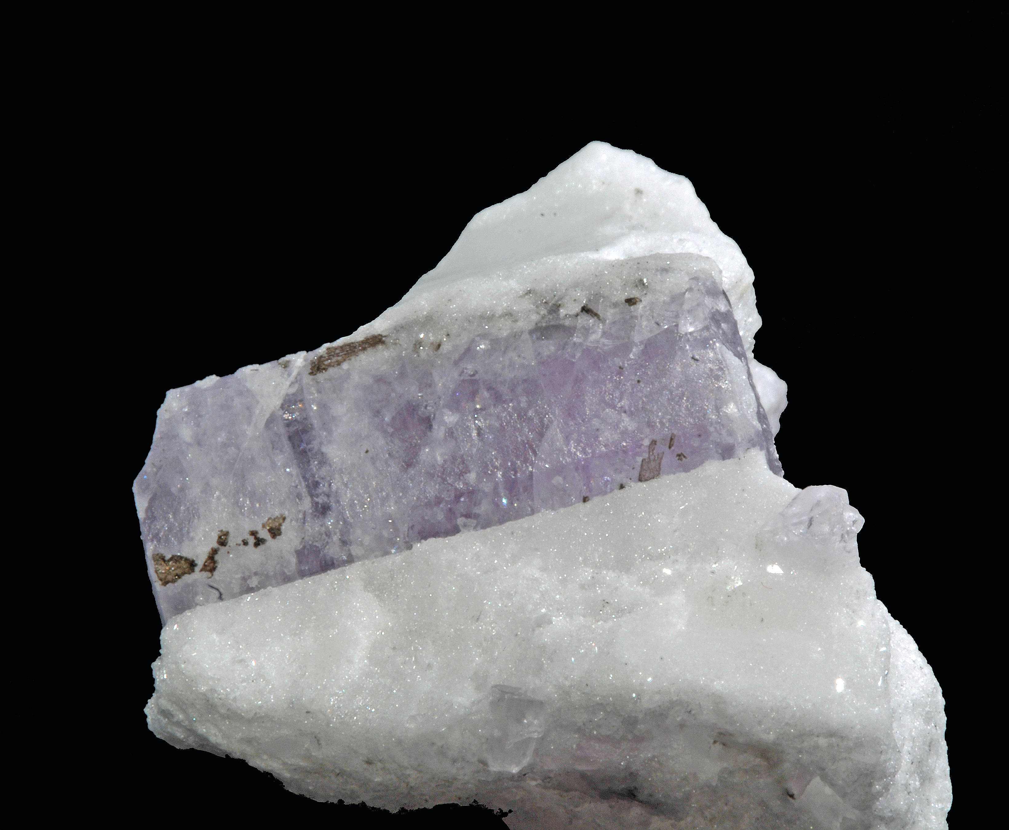 crystal of scapolite : Ladjuar Medam (Lajur Madan; Lapis-lazuli Mine; Lapis-lazuli deposit), Sar-e Sang (Sar Sang; Sary Sang), Koksha Valley (Kokscha Valley; Kokcha Valley), Khash & Kuran Wa Munjan Districts, Badakhshan Province (Badakshan Province; Badahsan Province), Afghanistan